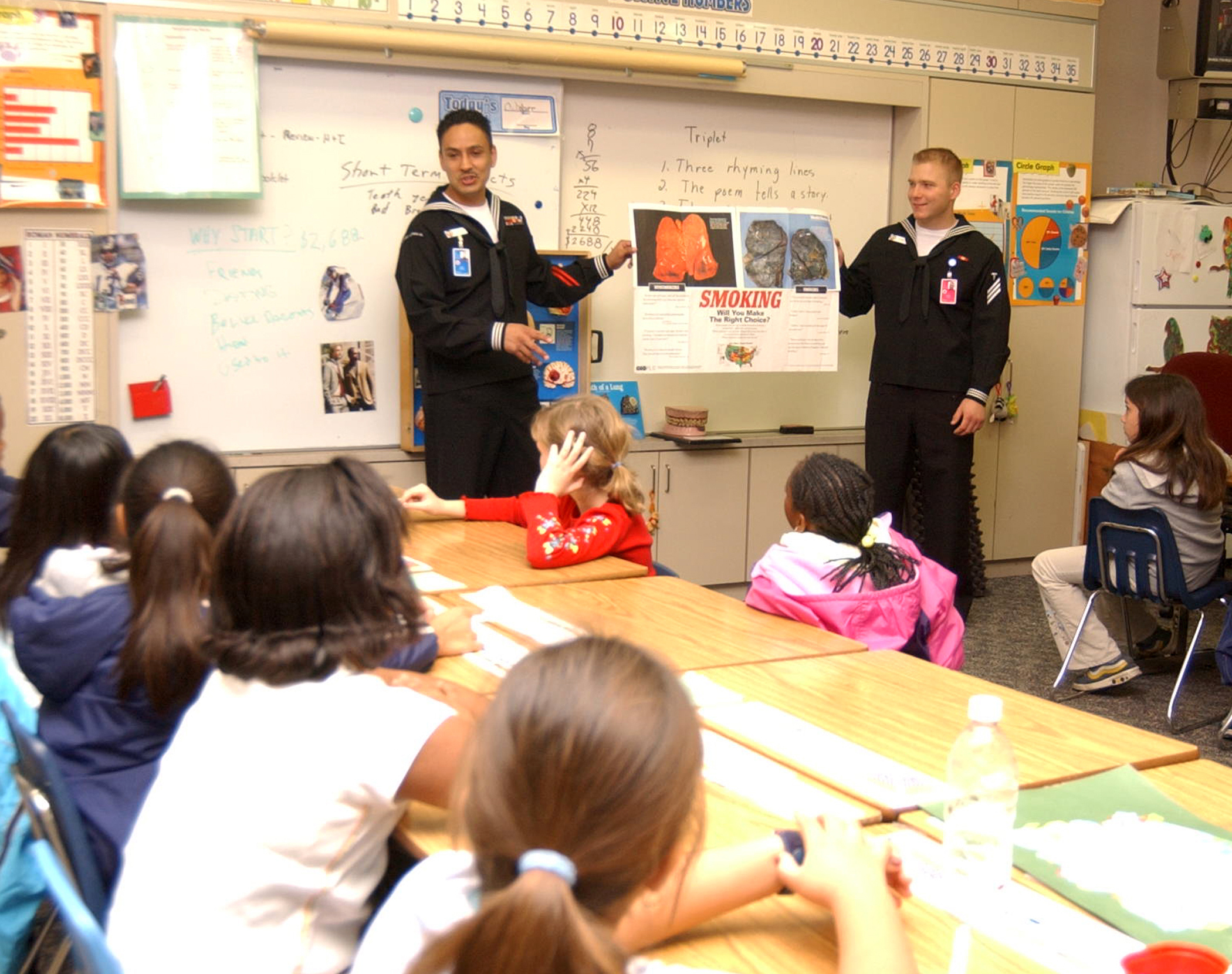 U.S. Naval Hospital Yokosuka, Japan (Dec. 4, 2003) -- Hospital Corpsman 2nd Class Raul Huerta, a Respiratory Therapy Technologist, and Hospitalman Samuel Karr, show the effects of cigarette smoking on your lungs to fourth graders at The Sullivans Elementary School, a Department of Defense Dependents School at Yokosuka Naval Base. Navy Corspmen, Nurses, and Doctors regularly visit local schools to talk about healthcare and career opportunities in the Navy. U.S. Naval Hospital Yokosuka provides family-centered care and health promotion to the forward-deployed U. S. Seventh Fleet and their beneficiaries throughout mainland Japan and at Chinhae, South Korea. U.S. Navy photo by Tom Watanabe (RELEASED)